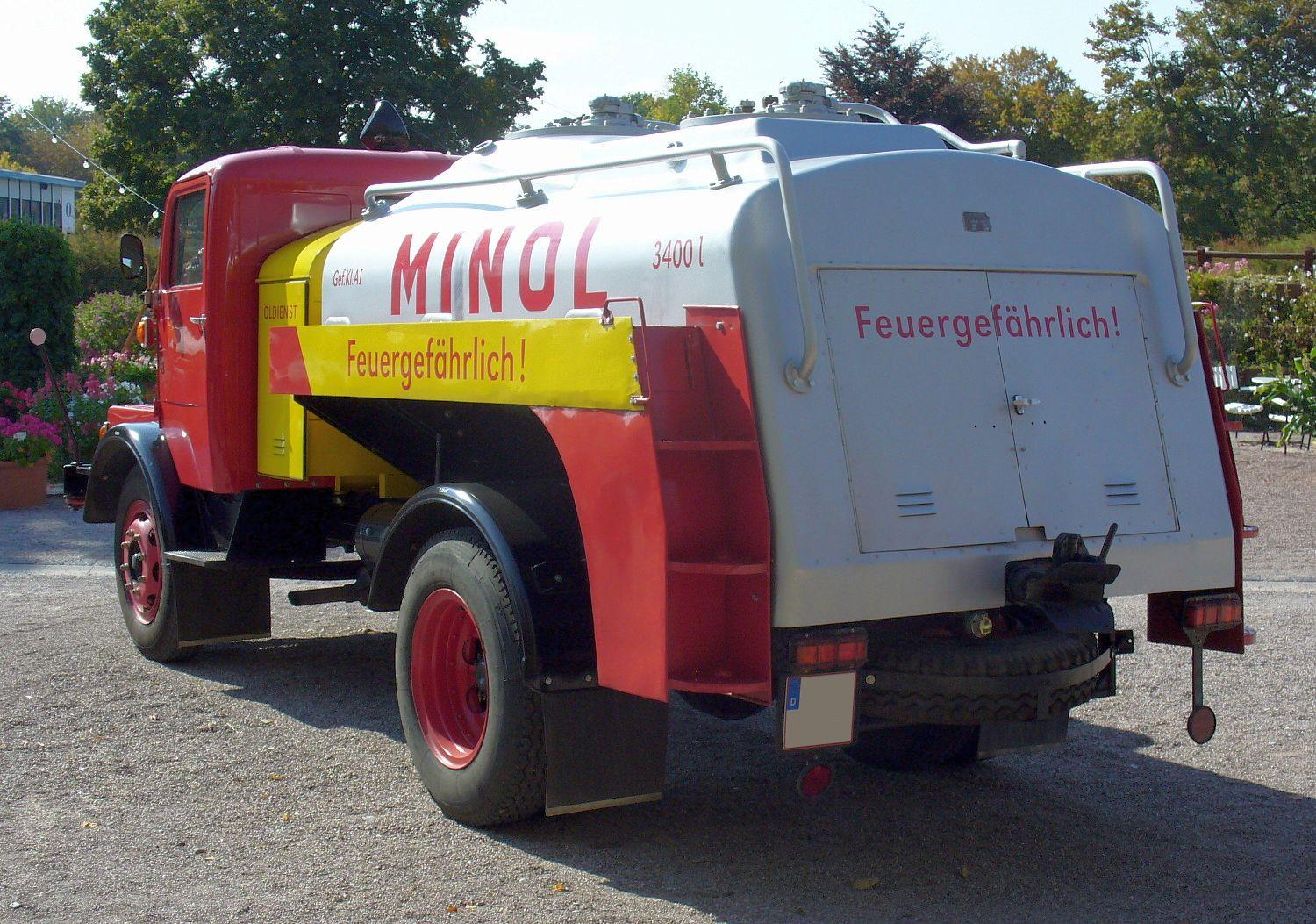 IFA S4000 Tank Minol